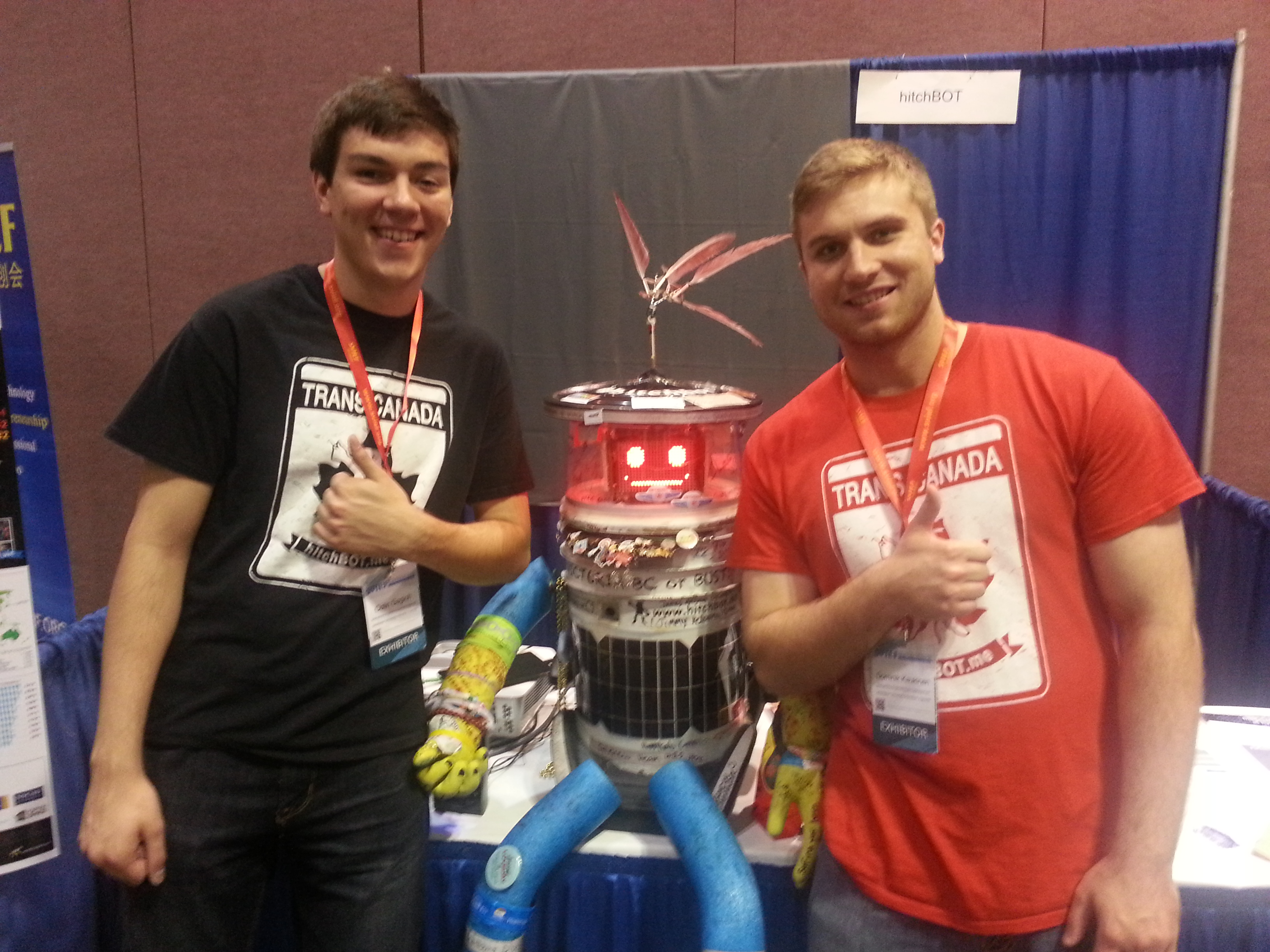 Colin Gagich (left) and Dominik Kaukinen (right) with hitchBOT (centre) displayed at an exhibition